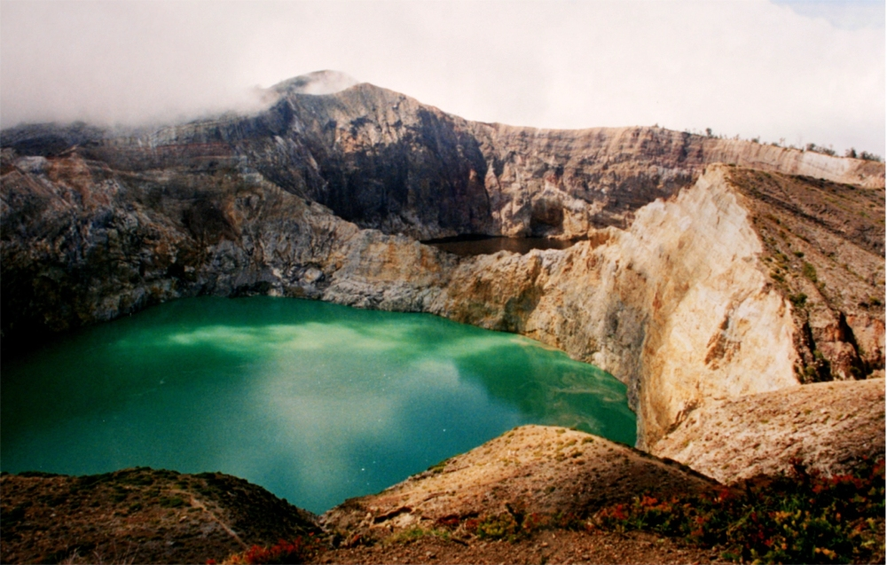 Crater lakes of Kelimutu at Flores Island, Indonesia Here's the picture of the third lake. The picture was taken by Brocken Inaglory